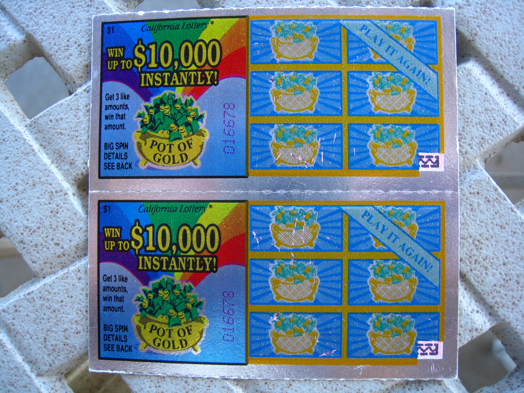 5 Year Anniversary California Lottery Tickets purchased January 20th, 1991 in Santa Rosa - unused - never scratched